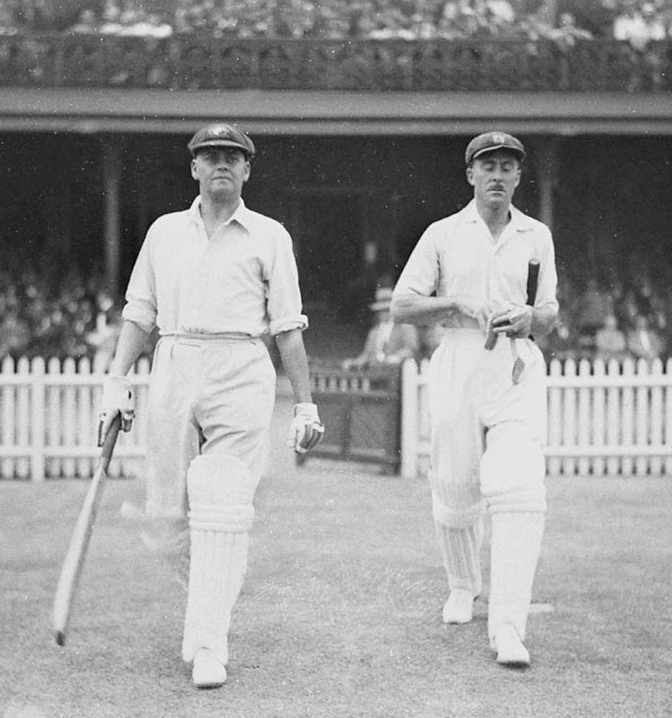 Image of Bill Woodfull and Vic Richardson walking out to open the batting in the final Bodyline Test. From the State Library of NSW, accessed at: [1] [2]. Public Domain.